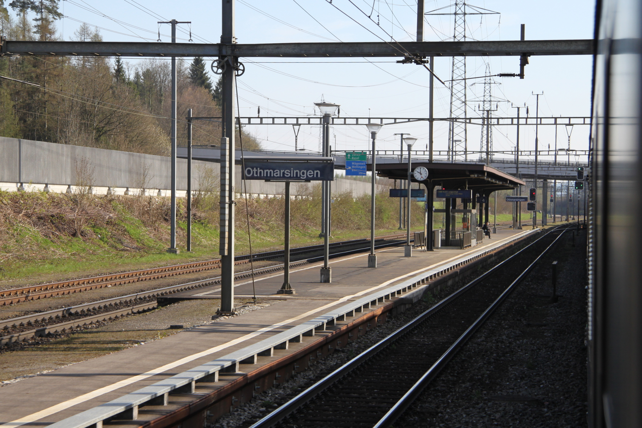 Othmarsingen train station.